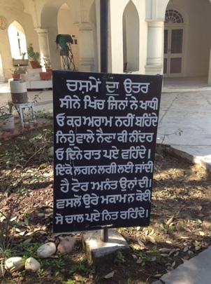 This plaque is from poetry written by Bhai Vir Singh during he visited spring named "Ichha Bal" perennially flowing in Kashmir(India)